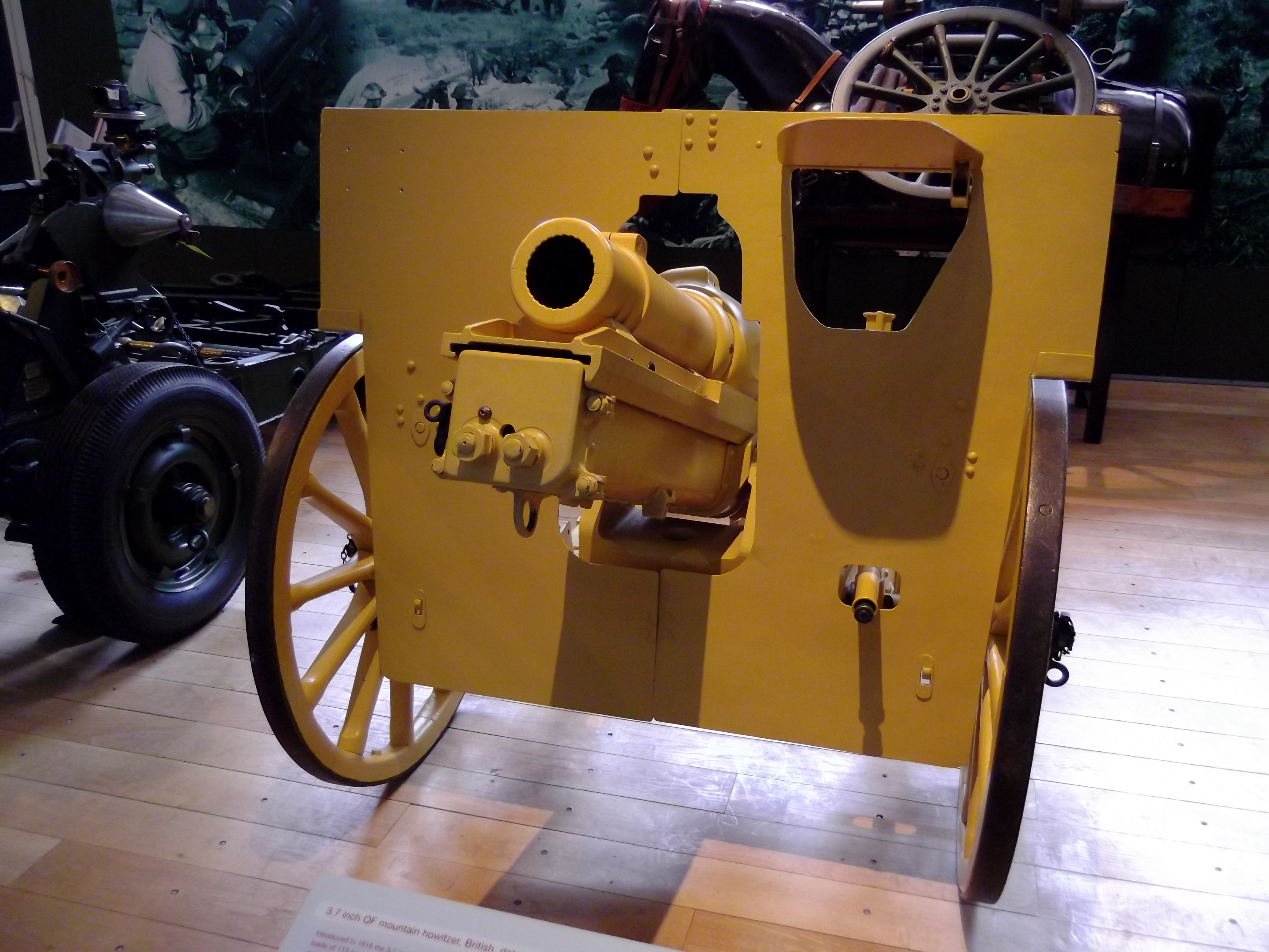 QF 3.7 inch mountain howitzer at Royal Artillery Museum Woolwich London.